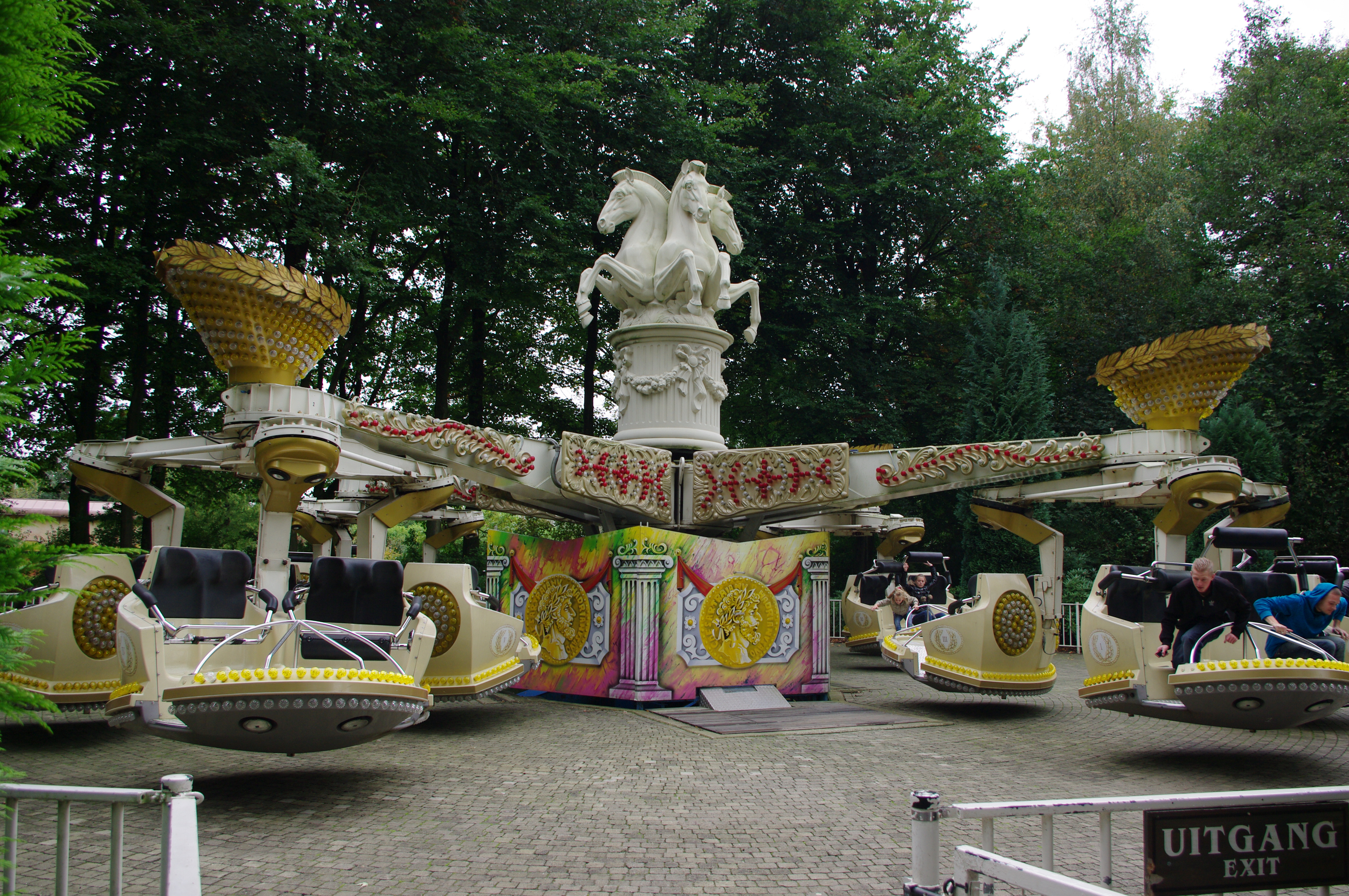 A HUSS 'Magic' called Il Gladiatore in the Dutch themepark Walibi World.